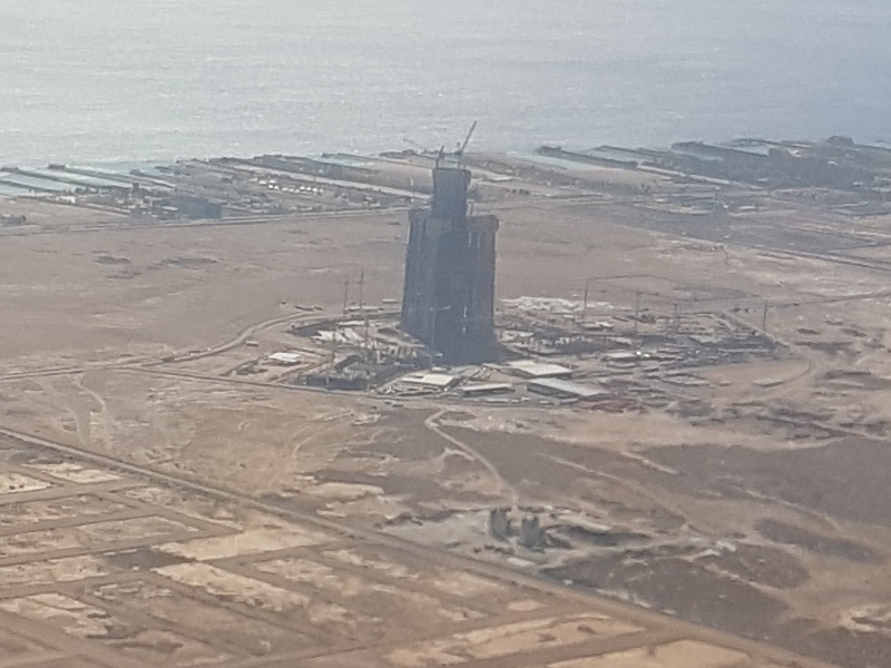 Jeddah Tower Building Progress as of 2016-04-14, Pictured from an Airplane.